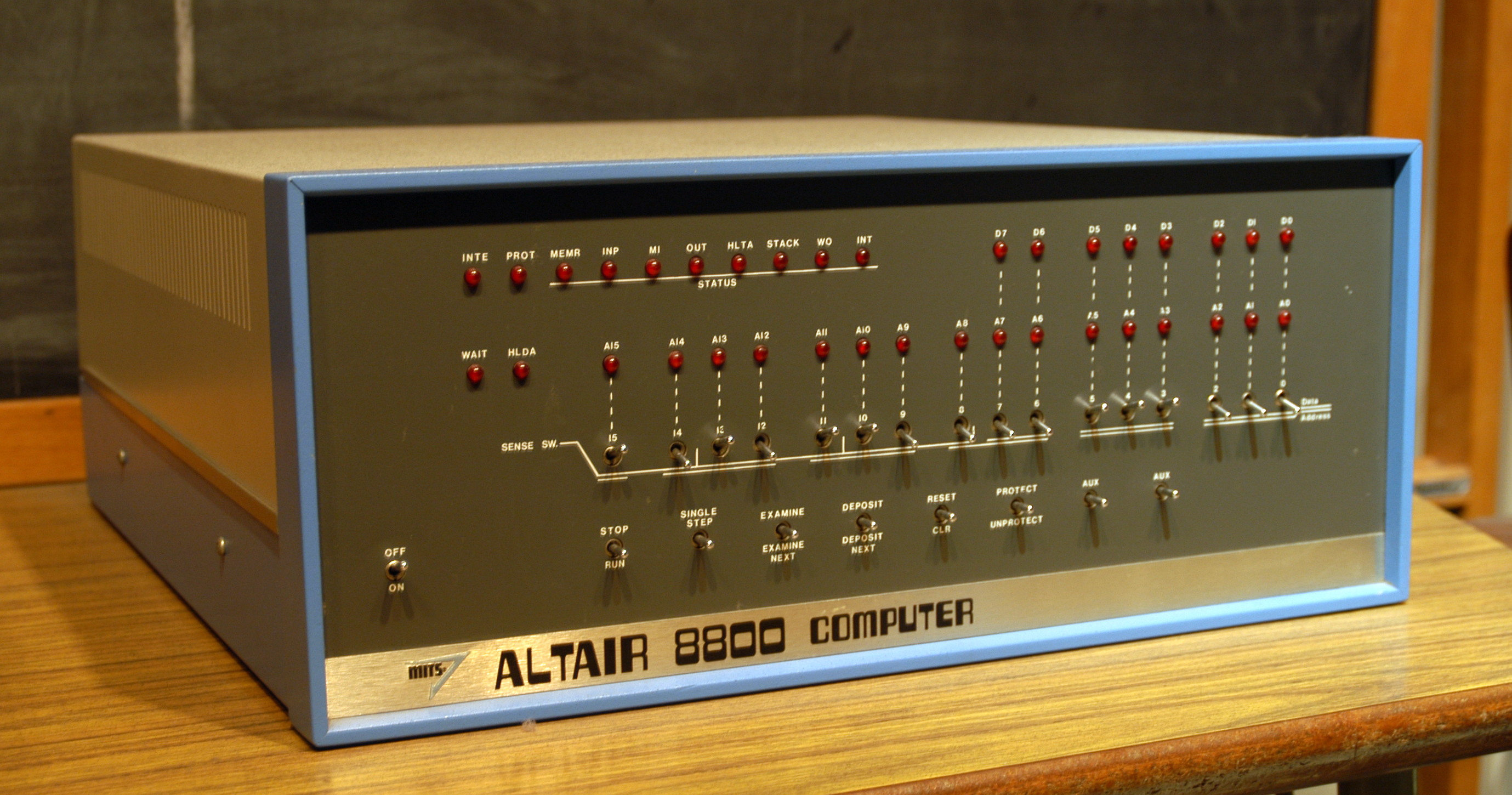 On display at the Smithsonian